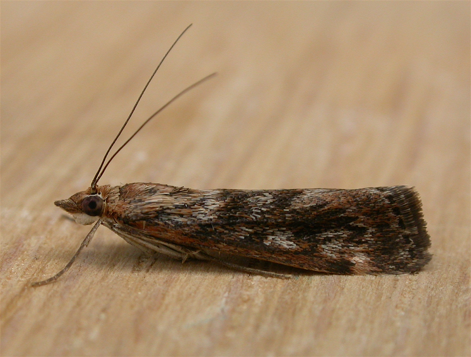 Achyra affinitalis (Lederer, 1863). Image taken at Aranda, Canberra (Australia).